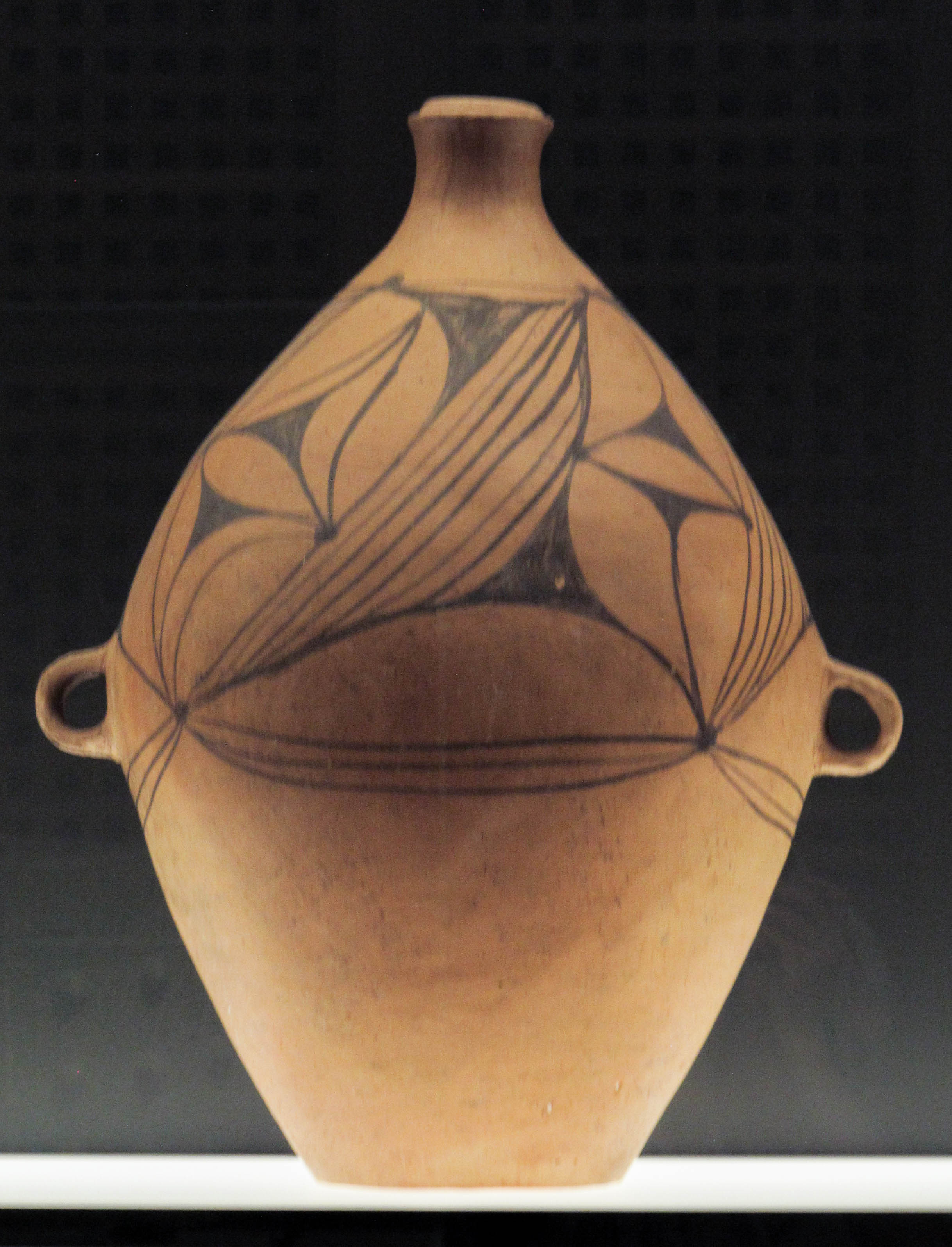 Large water vessel : bottle / amphora. Shaanxi, Shanxi or Gansu. Late Yangshao or early Majiayao culture. 4th. millenium BC. Rietberg Museum, Zurich.